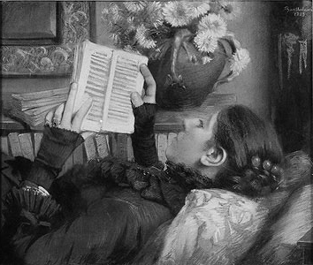 The Artist's Wife (Périe, 1849–1887)